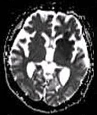 Different sequences of MRI taken in a case 4 hours after cerebral infarction: T2 weighted, which failed to diagnose the infarcted region Diffusion weighted image (DWI), with clear infarcted region in basal ganglia. ADC image, showing lower ADC value in infarcted region.